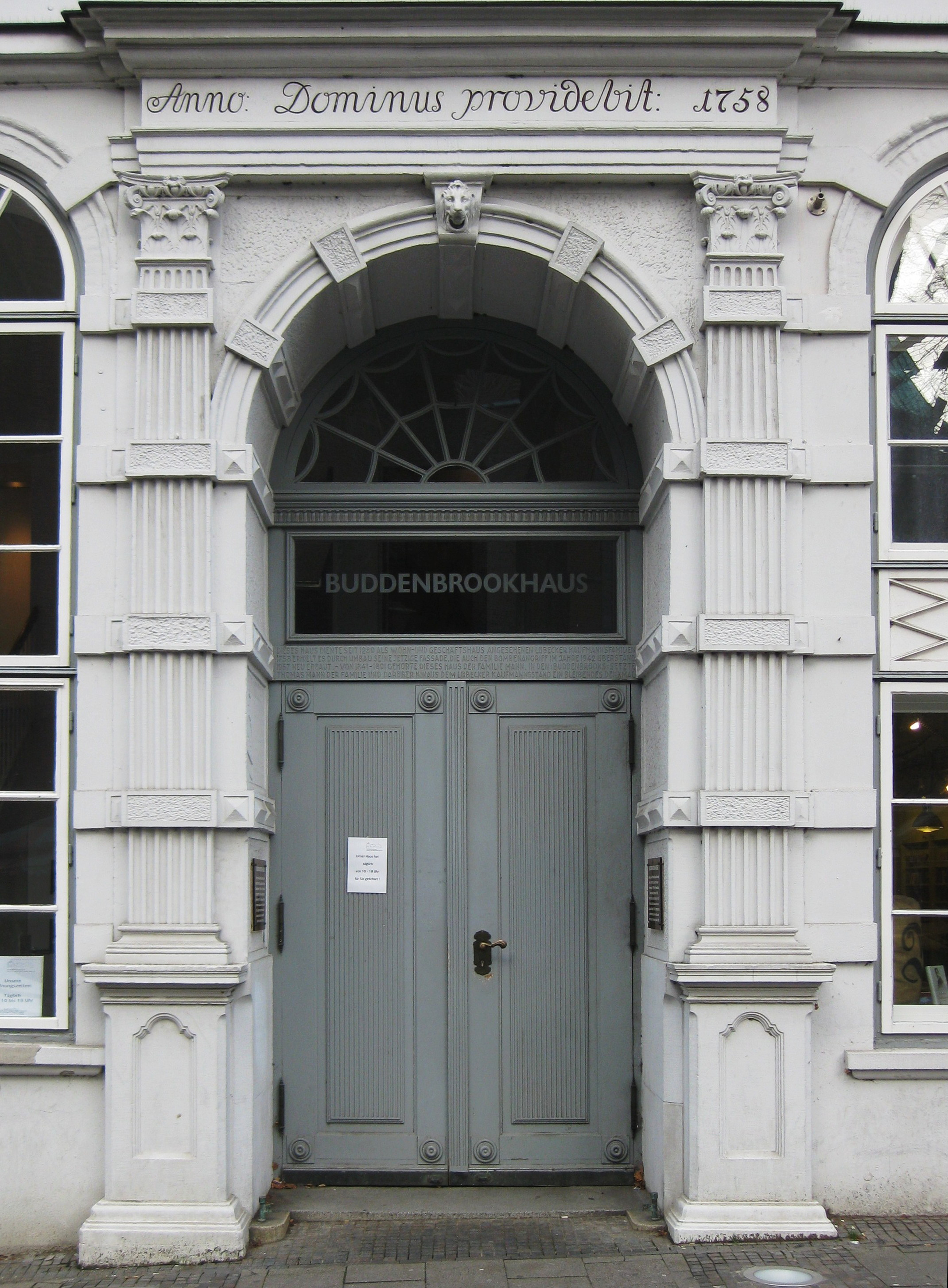 Portal of the Buddenbrookhaus in Lübecks Mengstraße